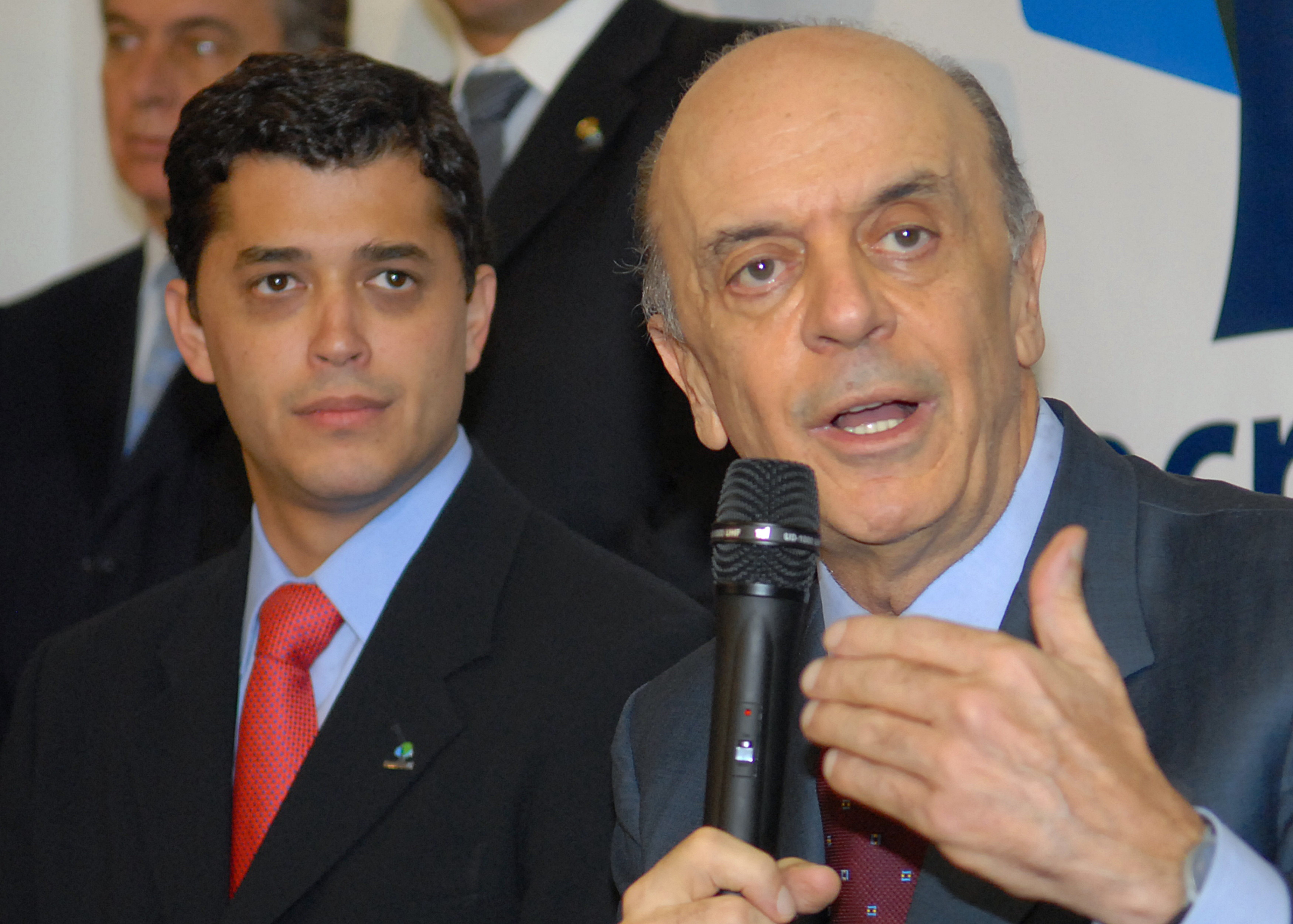 The candidate for the presidency by the PSDB, José Serra, speaks during the announcement of the name Indio Mr Costa to be the vice on his ticket, the Democrats at the convention.